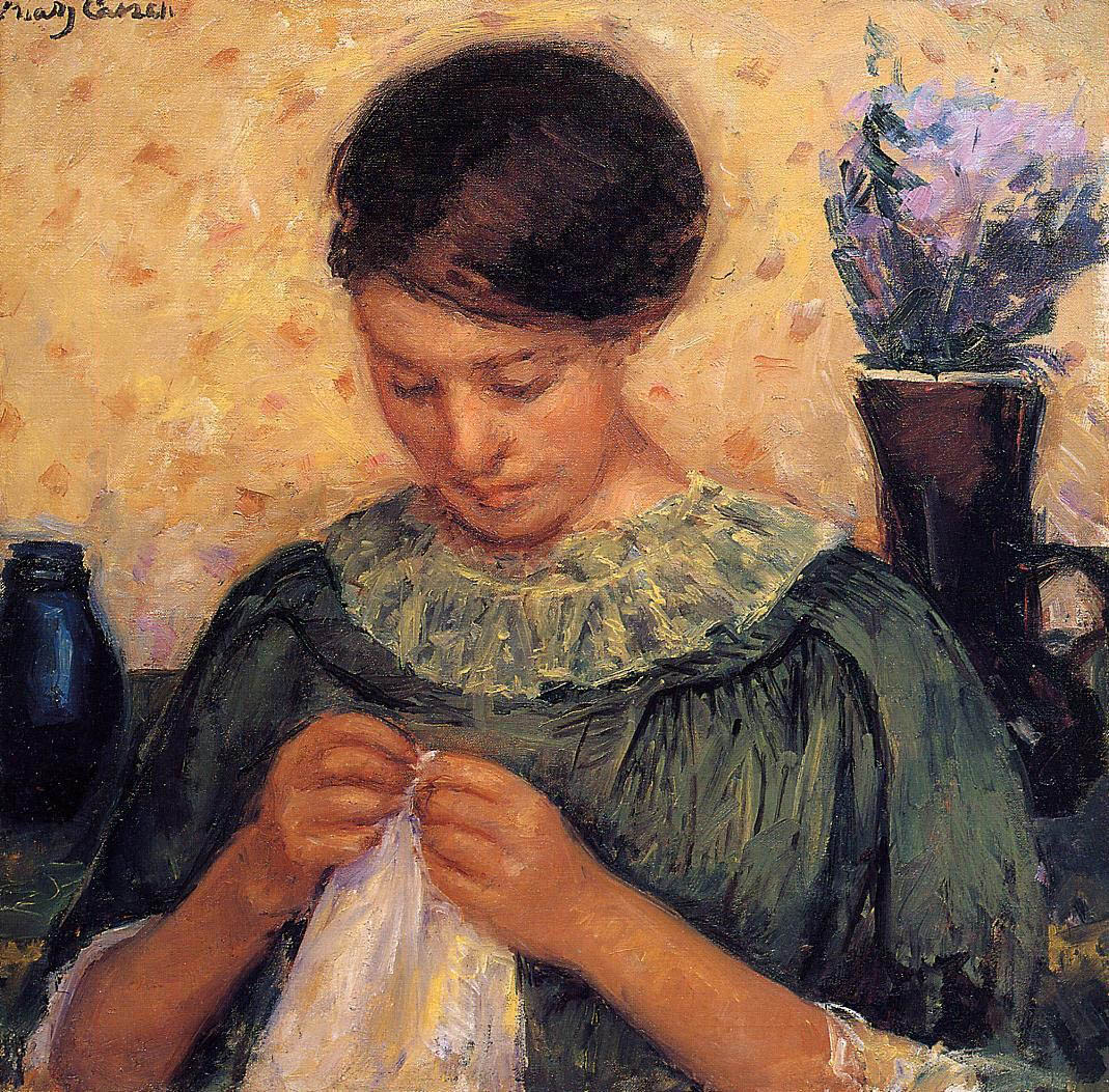 Mary Cassatt: Woman sewing